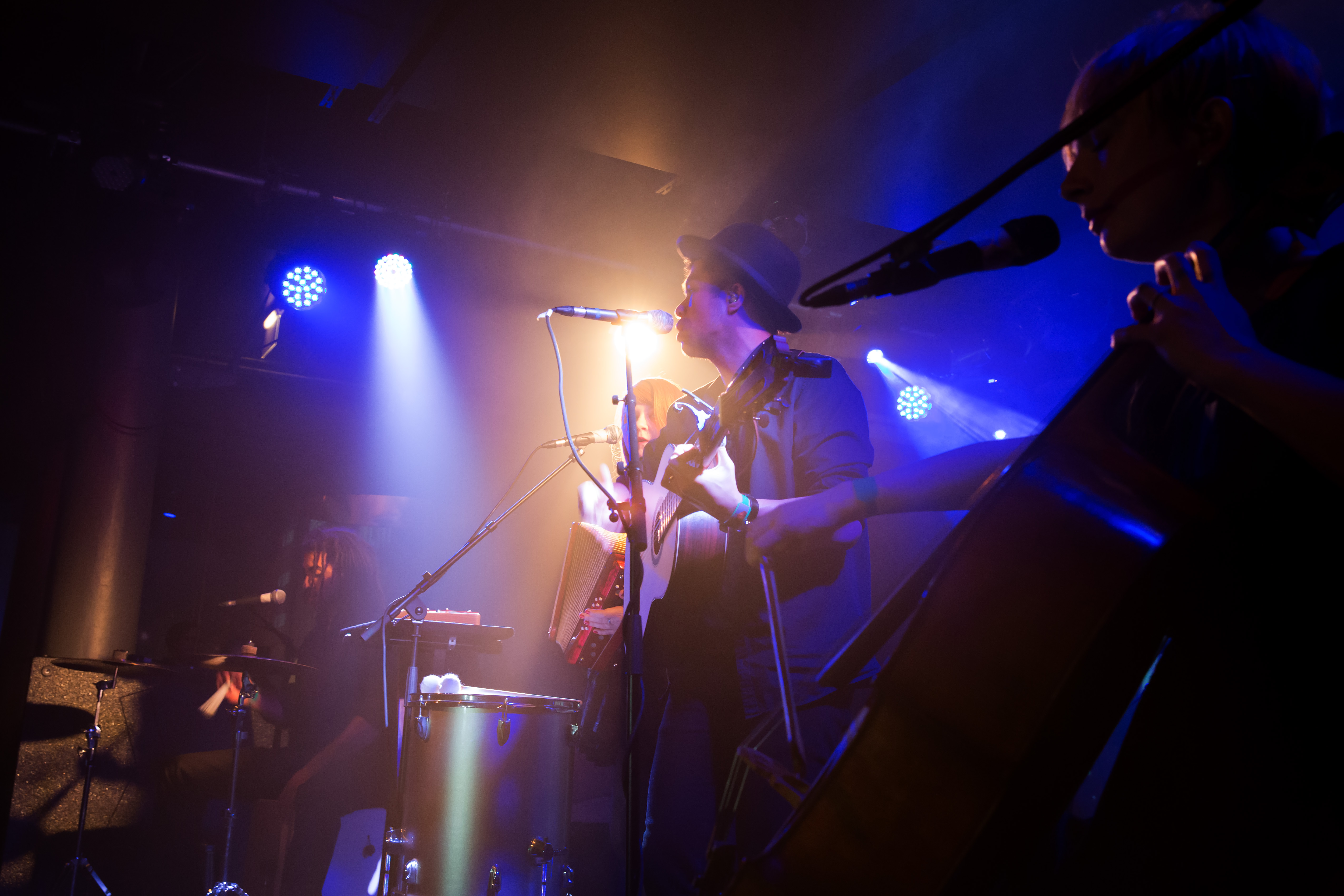 DAWA at the concert of the Austrian candidates for participating at the Eurovision Song Contest 2015; Chaya Fuera, Vienna,Austria.